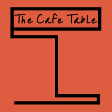 Logo of The Cafe Table